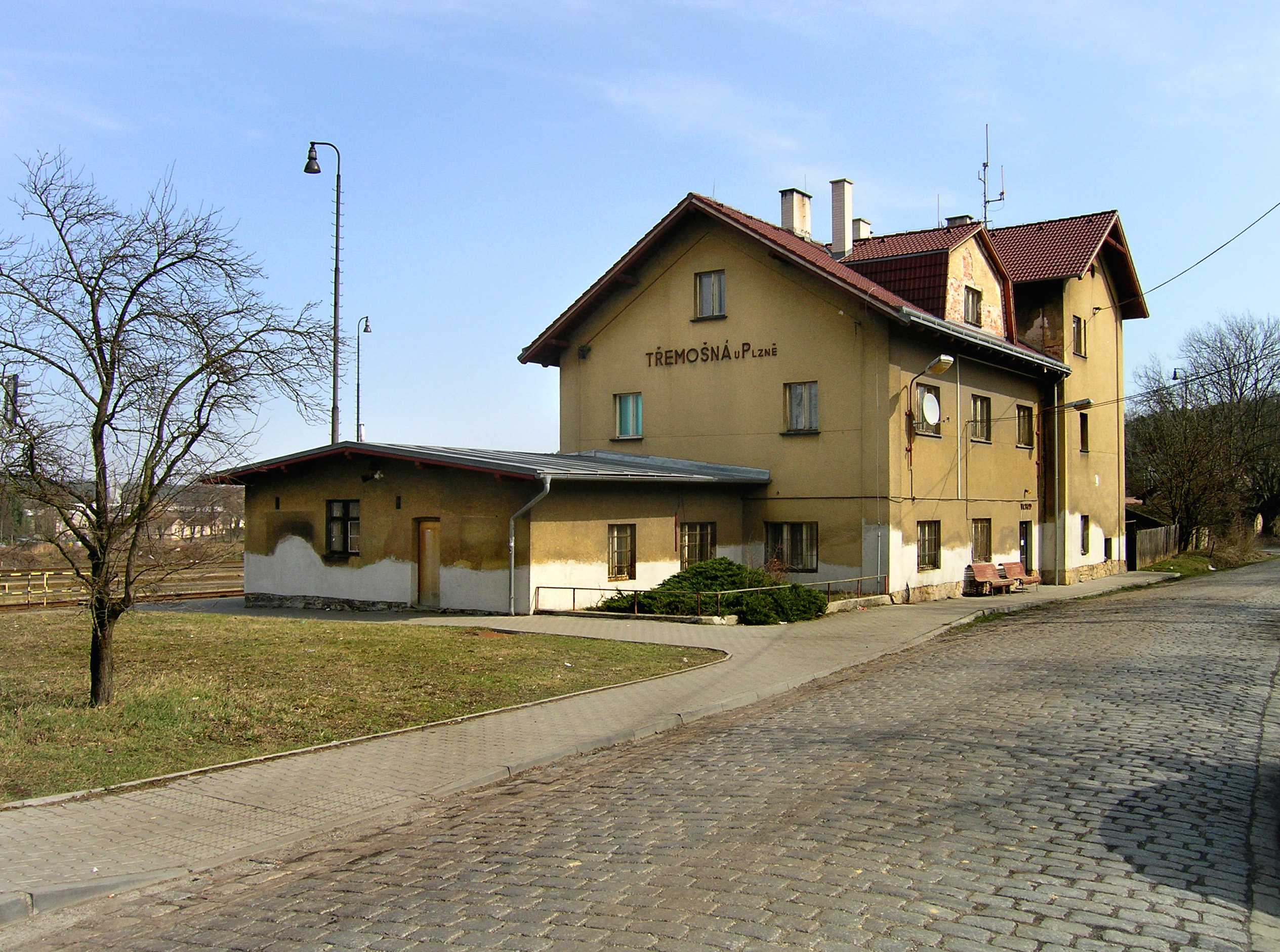 Railway station in Třemošná, Czech Republic